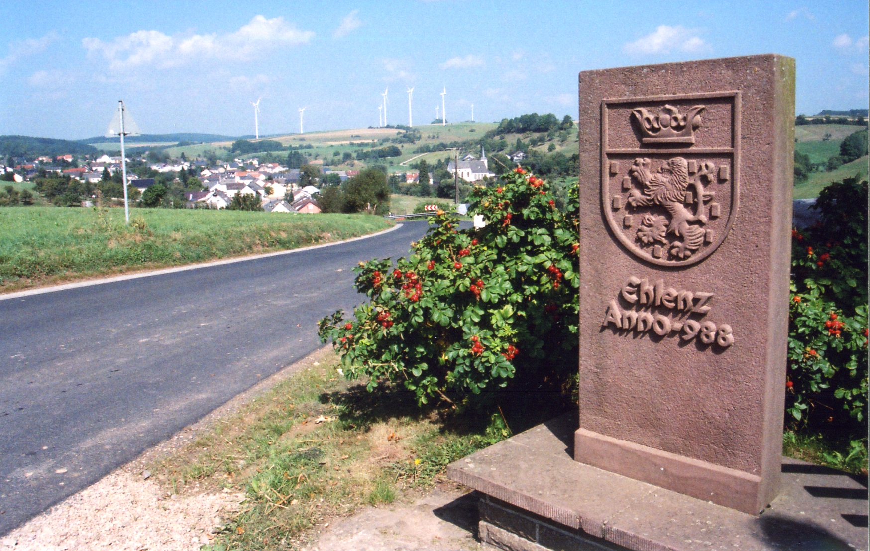 View over the village Ehlenz in Germany